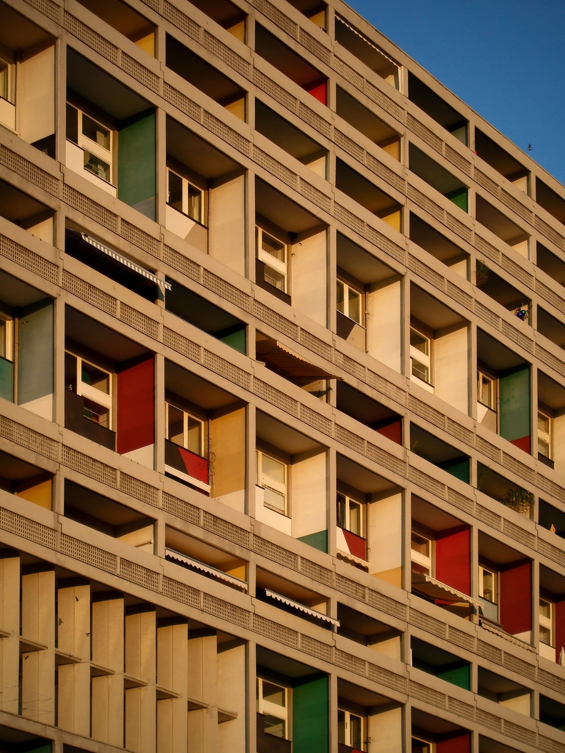 Unité d'habitation, type Berlin ("Corbusierhaus") by Le Corbusier, Flatowallee 16, Berlin